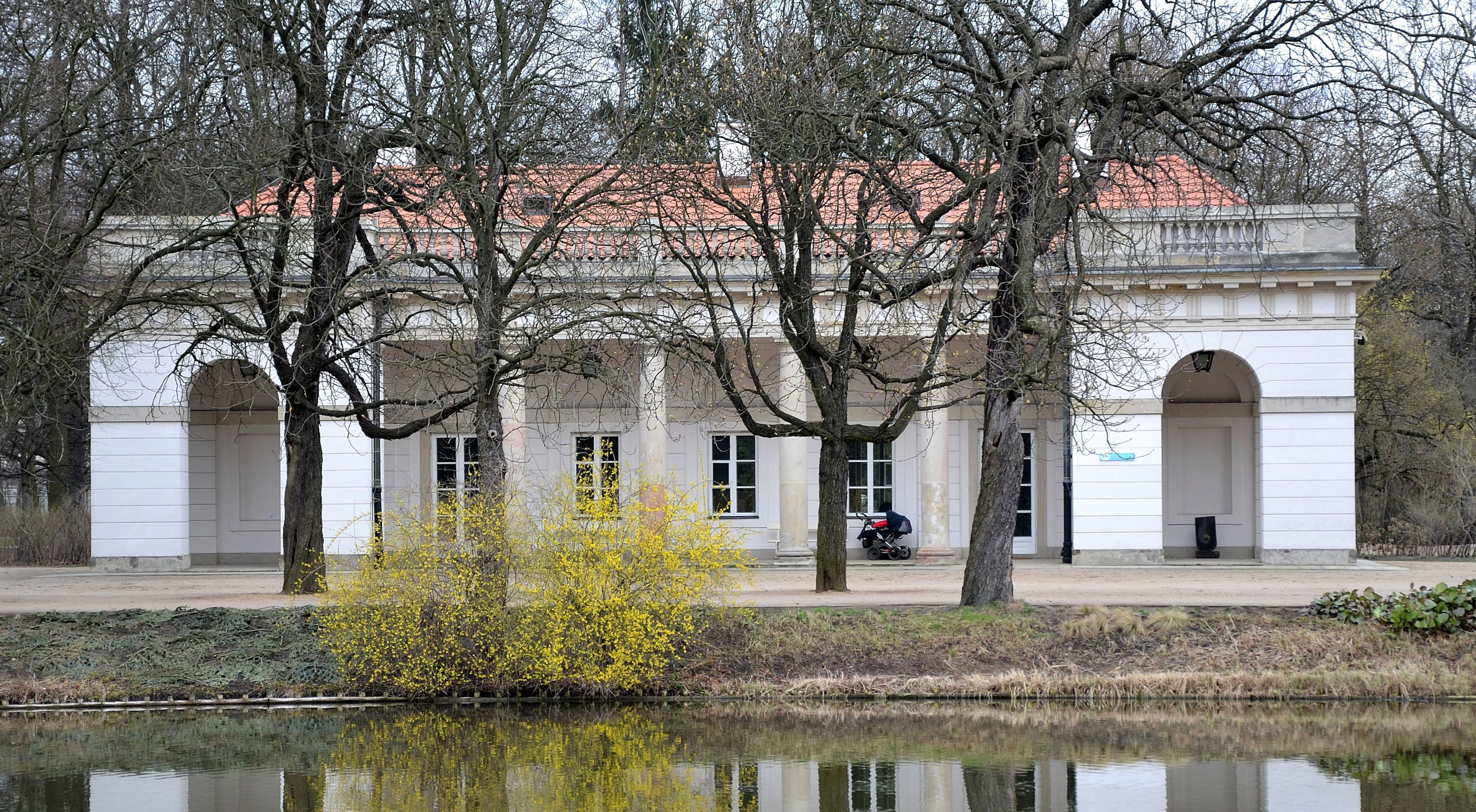 Old Guardhouse in Łazienki Garden